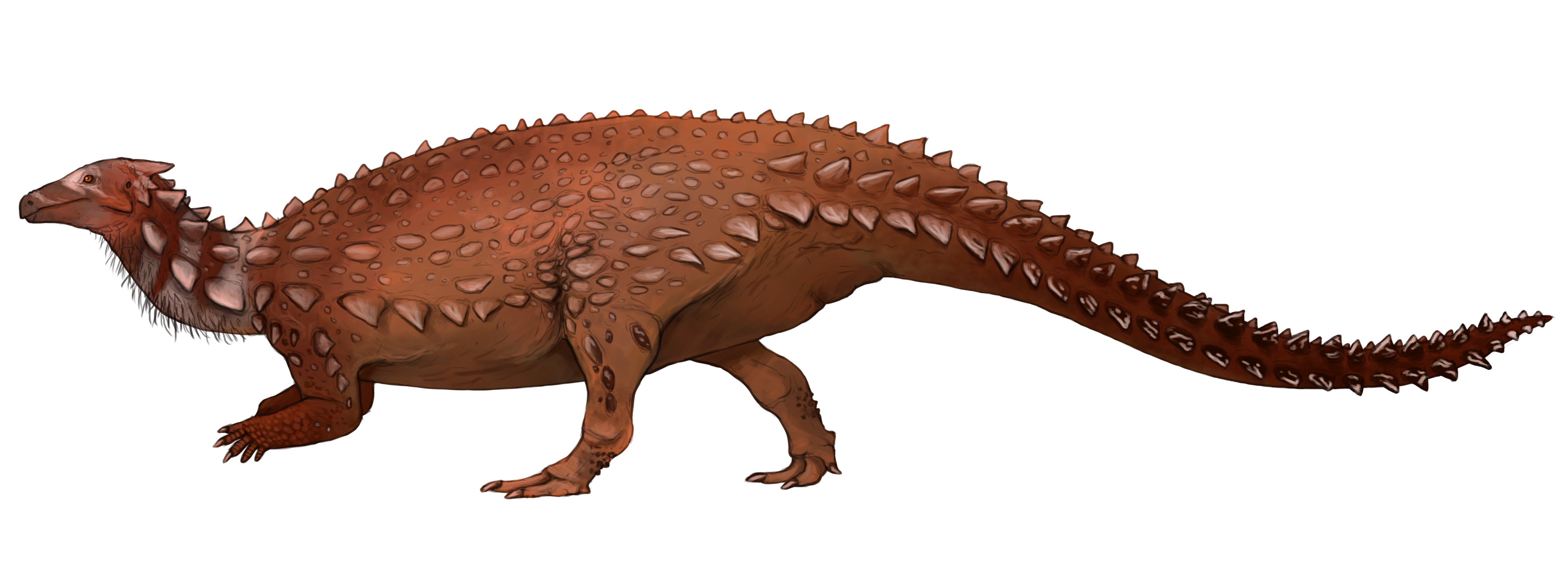 Scelidosaurus with transparent background